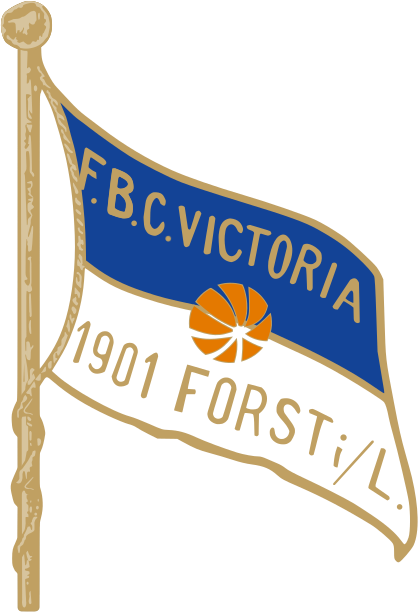 Logo of FC Viktoria Forst, German football team.